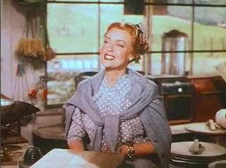 Screenshot of Jeanette MacDonald from the trailer for the film The Sun Comes Up